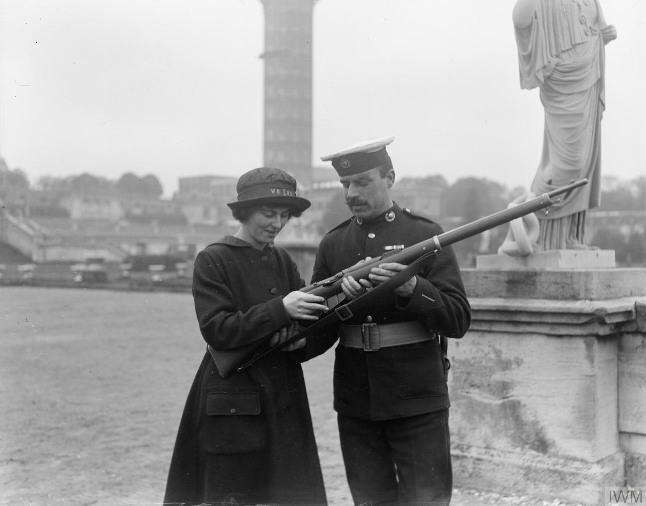 The Women's Royal Naval Service on the Home Front, 1917-1918 A member of the WRNS receives rifle instruction from a Royal Marine at Crystal Palace.